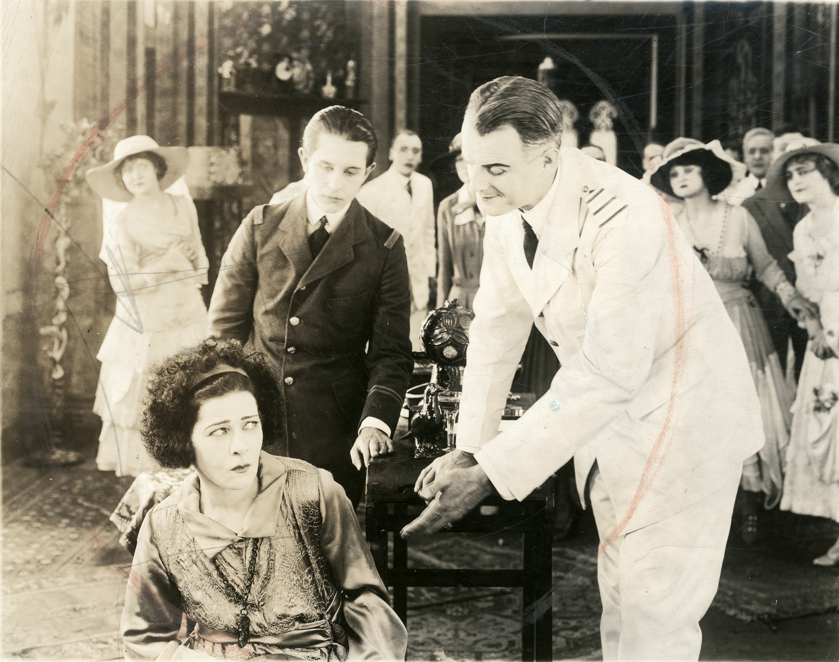 Eye for Eye (1918) is 1918 silent American film directed by Albert Capellani. This is a publicity photo and/or a scene from the film.